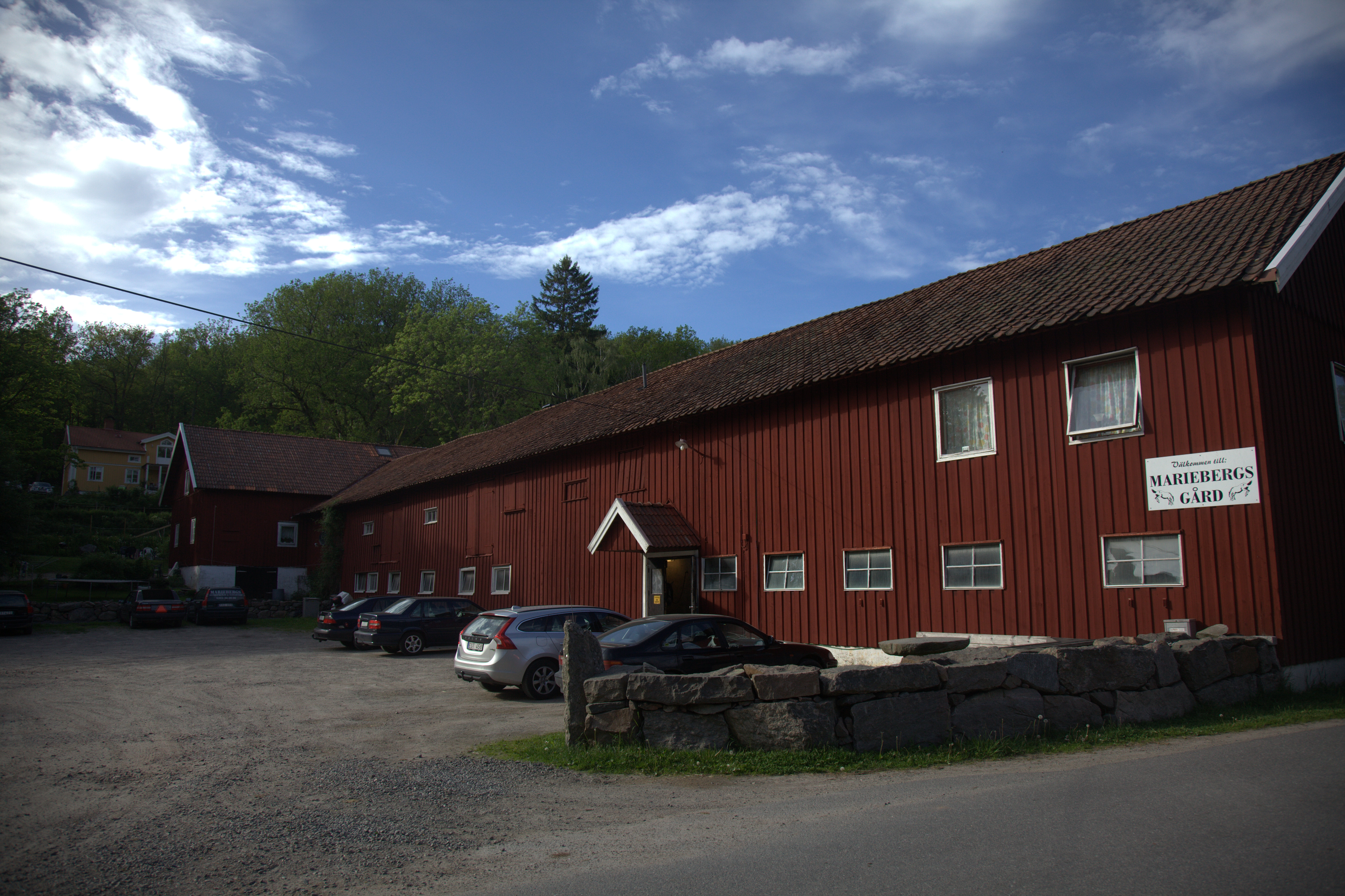 Mariebergs gård north of Kungälv.